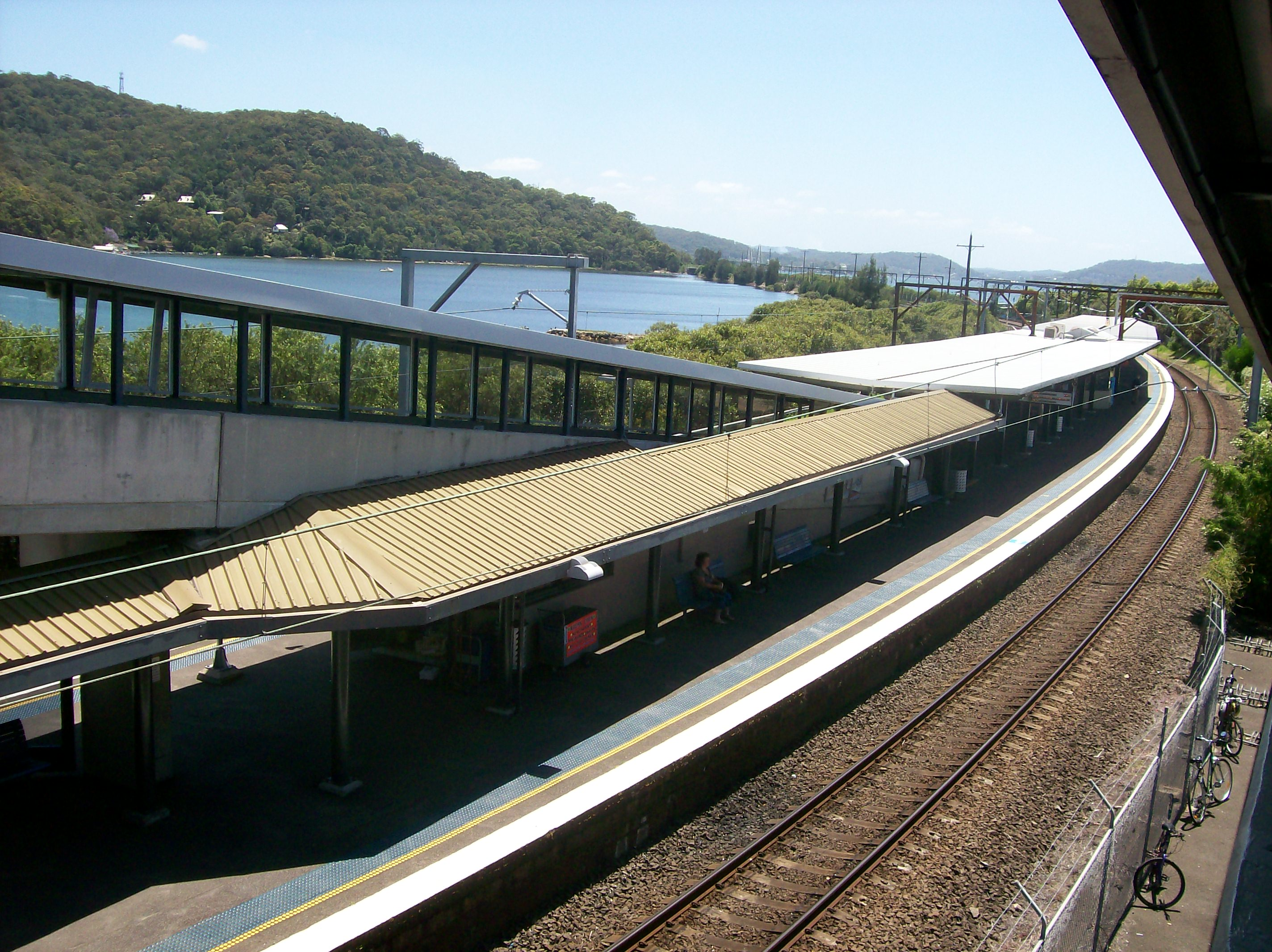 Woy Woy railway station